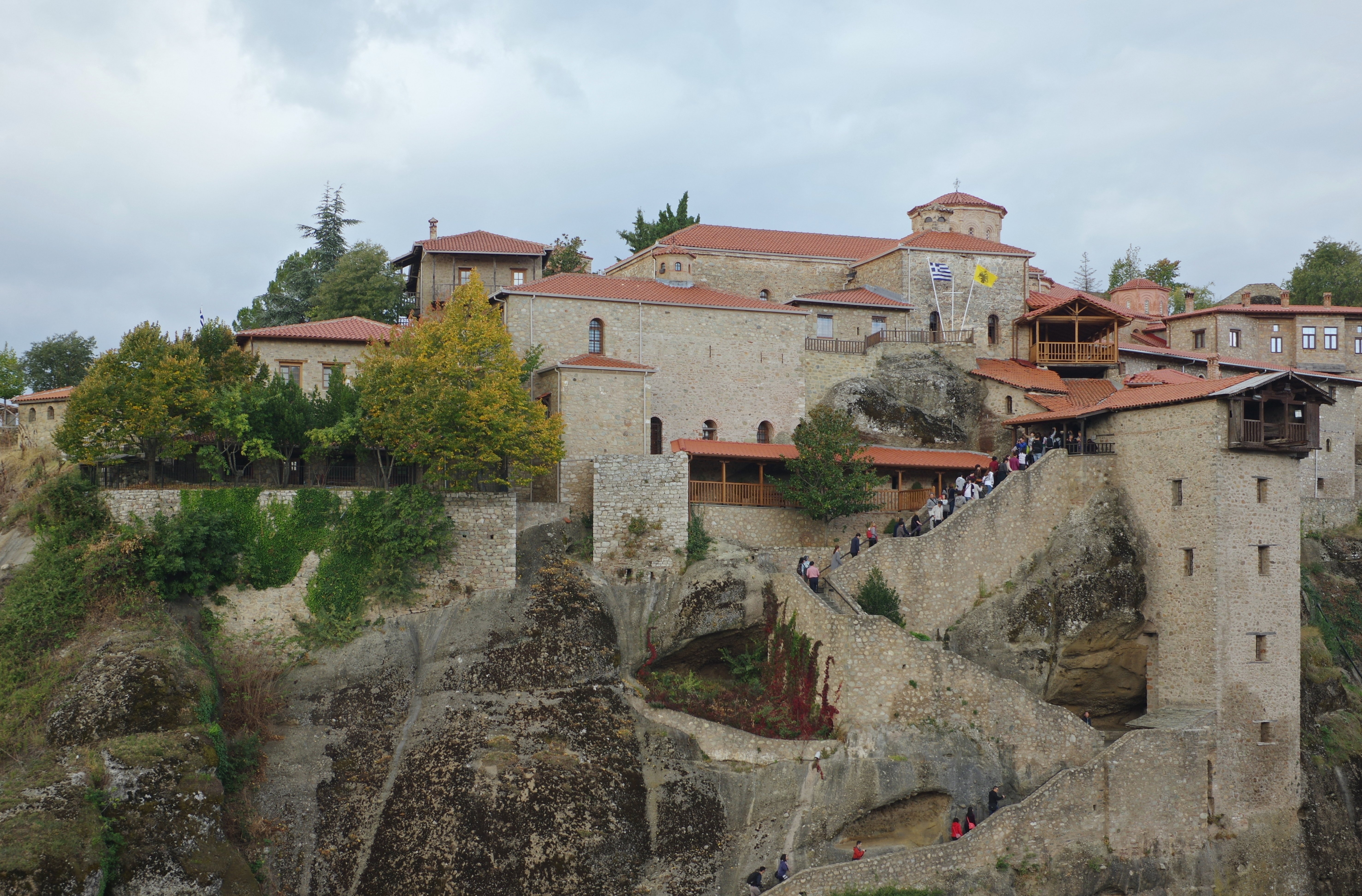 Greece, Meteora, Moni tis Metamorphosis tou Sotiros